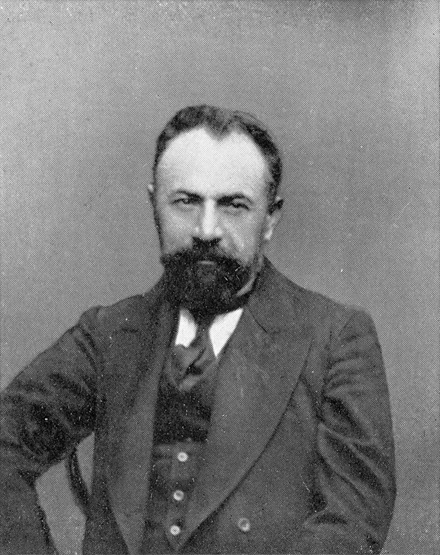 Stepan Zoryan (Rostom) - 1867-1919